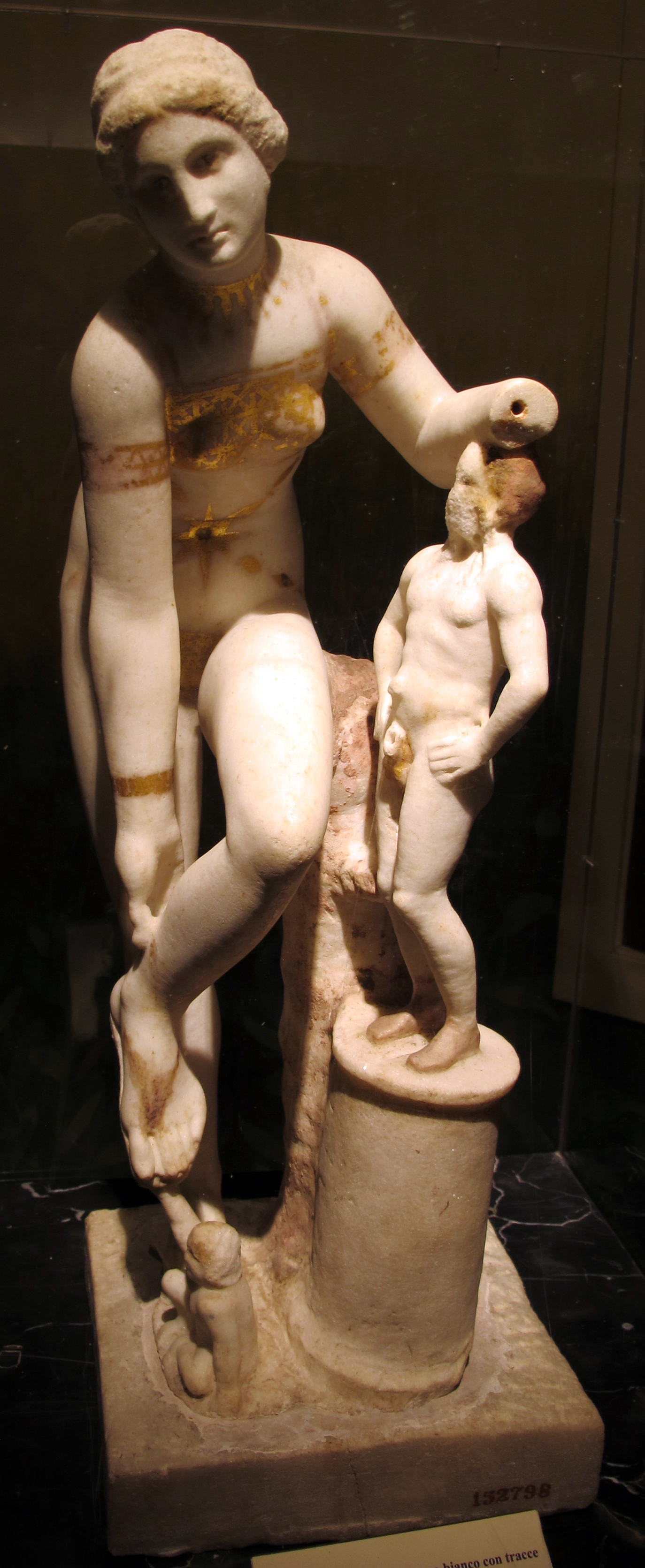 Secret Cabinet in the Museo Archeologico (Naples)